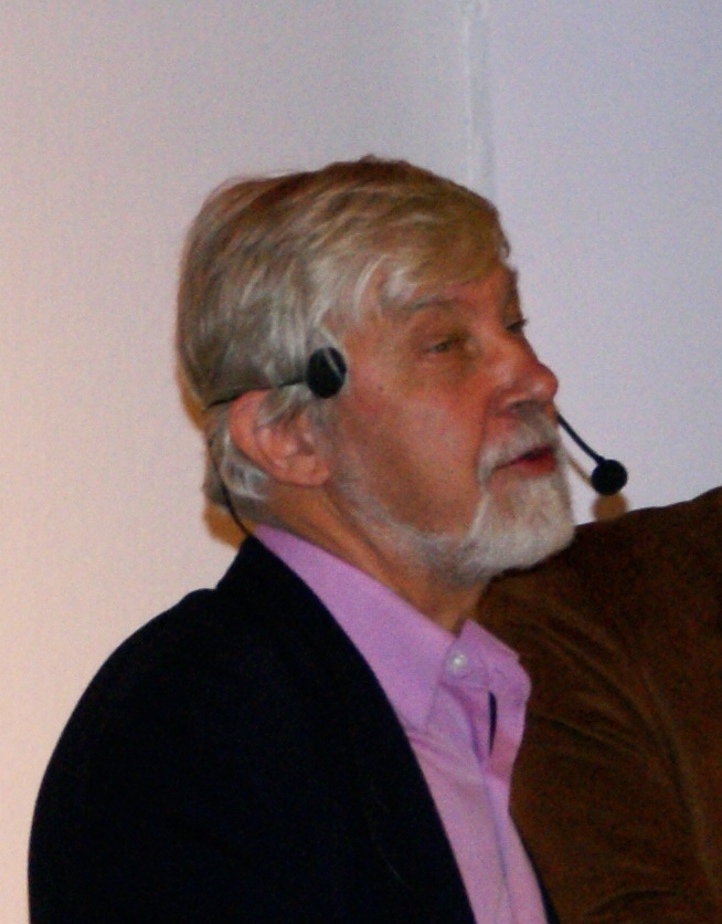 Peter Wallensteen at the bookfair in Gothenburg 2009.